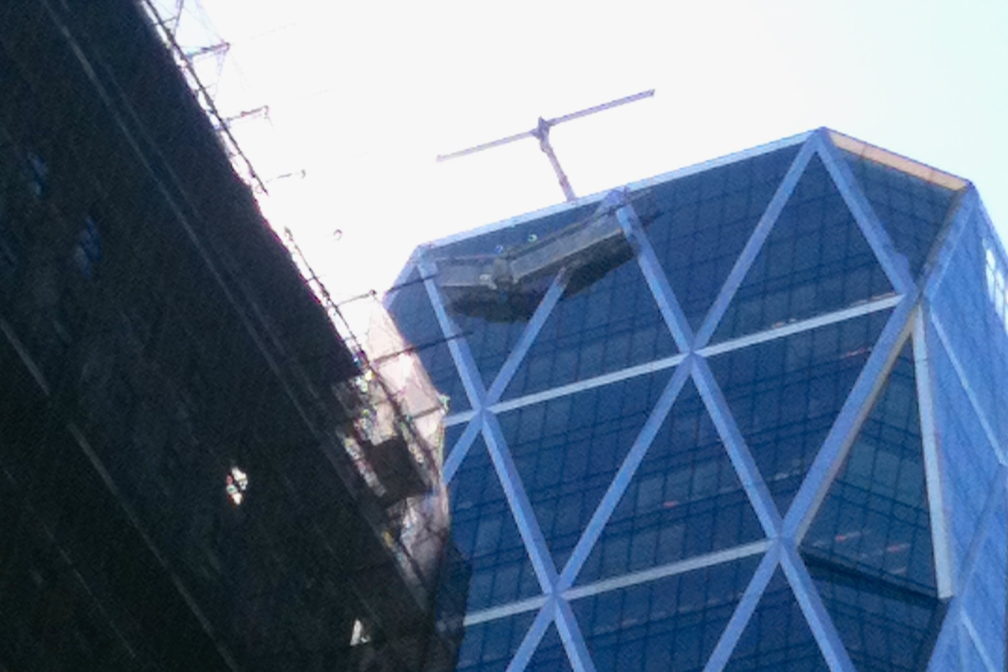 Hearst Tower window cleaning incident in 2013.